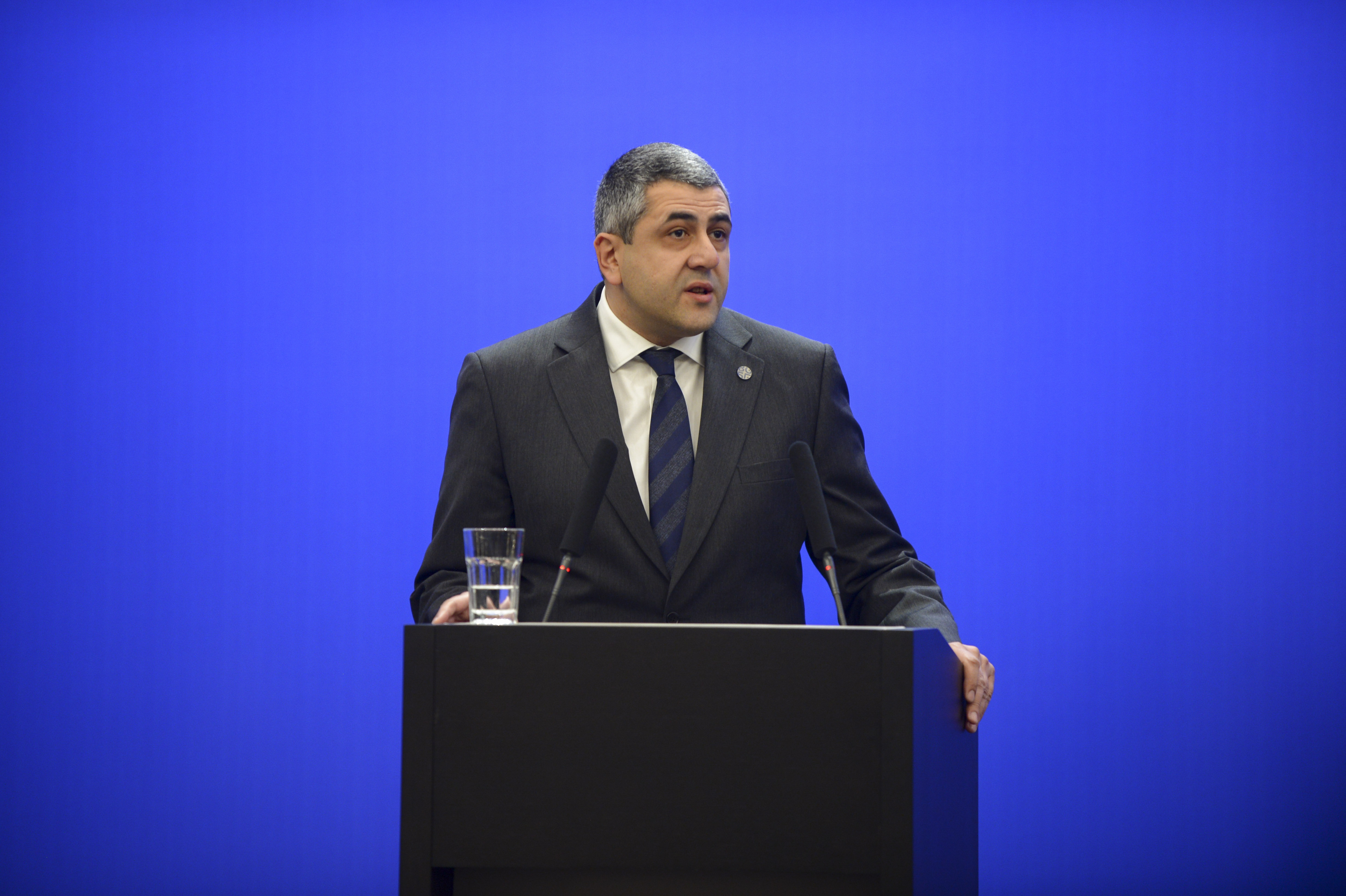 Zurab Pololikashvili, Secretary-General of the World Tourism Organization Photo: Nikolay Doychinov (EU2018BG)